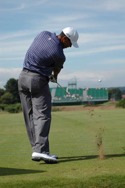 Tiger practising, seventh hole, 2007 Open Championship This was on the Sunday before it all began.